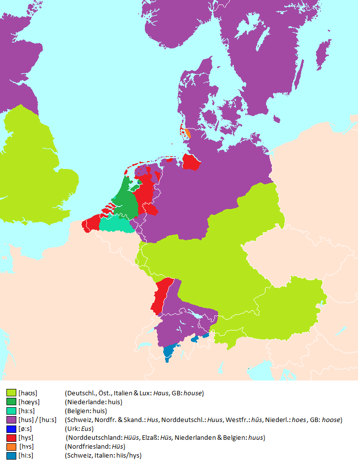 The word "house" in the Germanic dialects